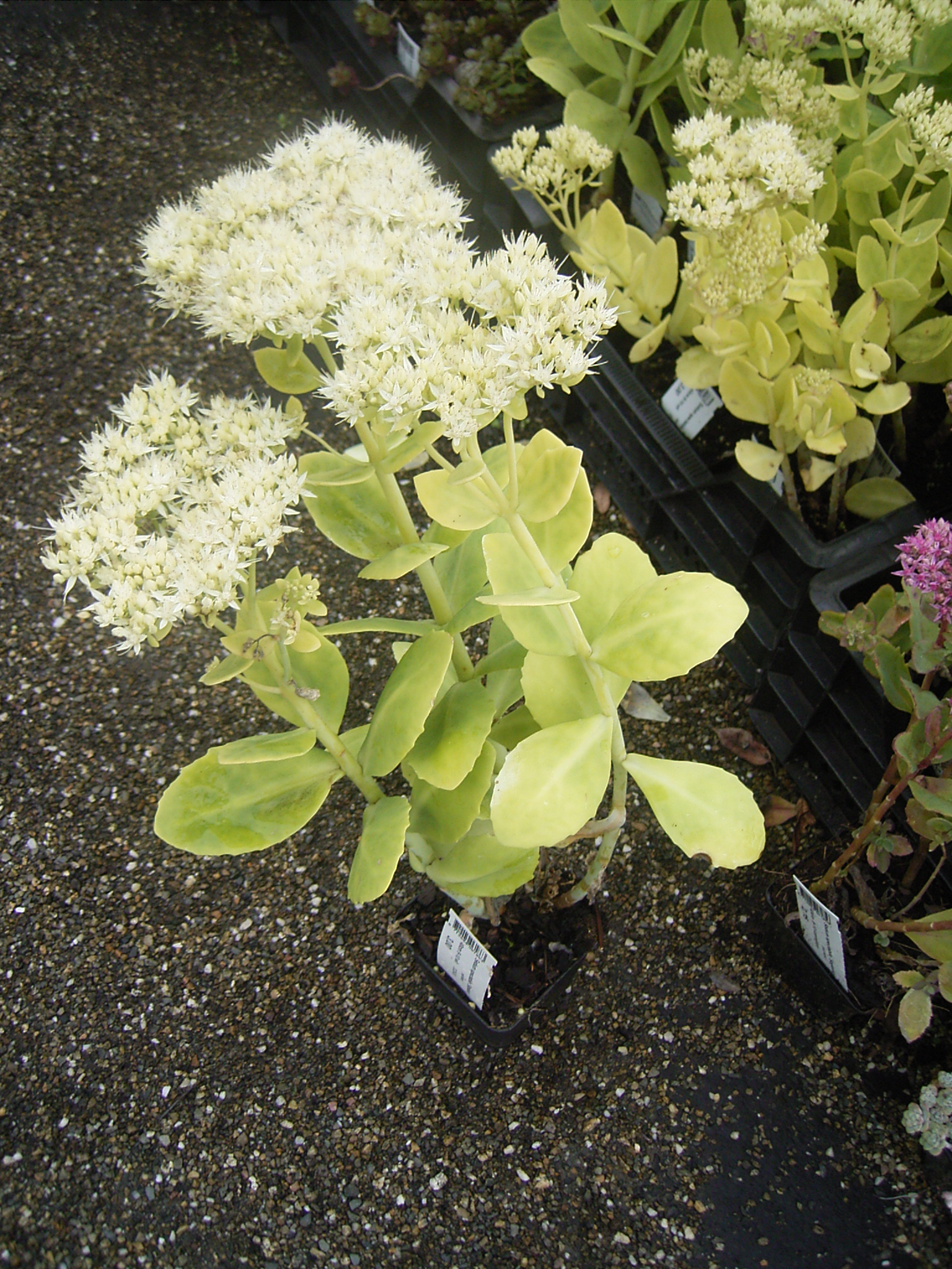 This photo shows Hylotelephium spectabile cv 'Stardust'